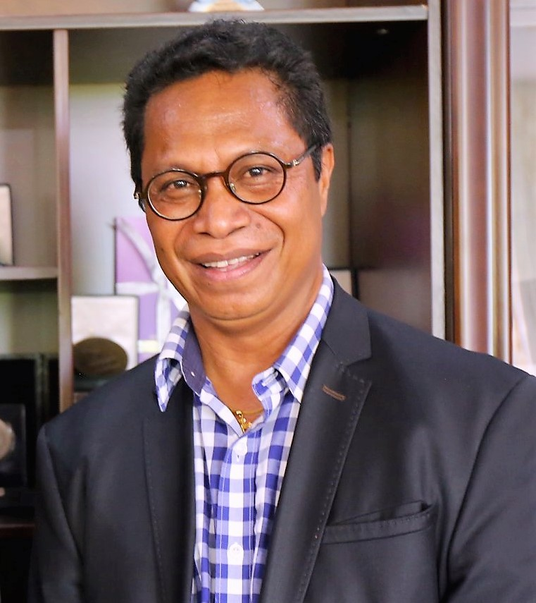 Jorge Trindade Neves de Camões